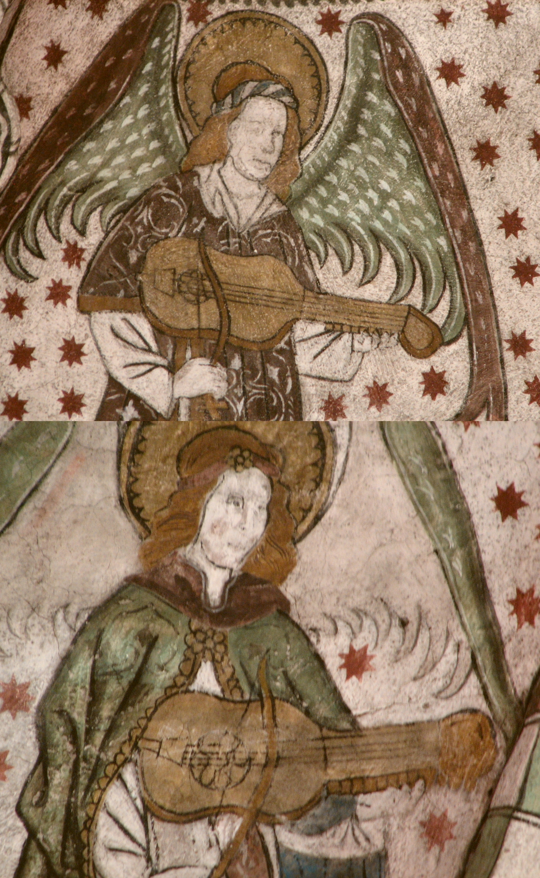 Two angels playing nyckelharpa painted in the ceiling fresco of the church of Tolfa, commune of Tierp, Uppland, Sweden. Unknown painter second part of 15th century.